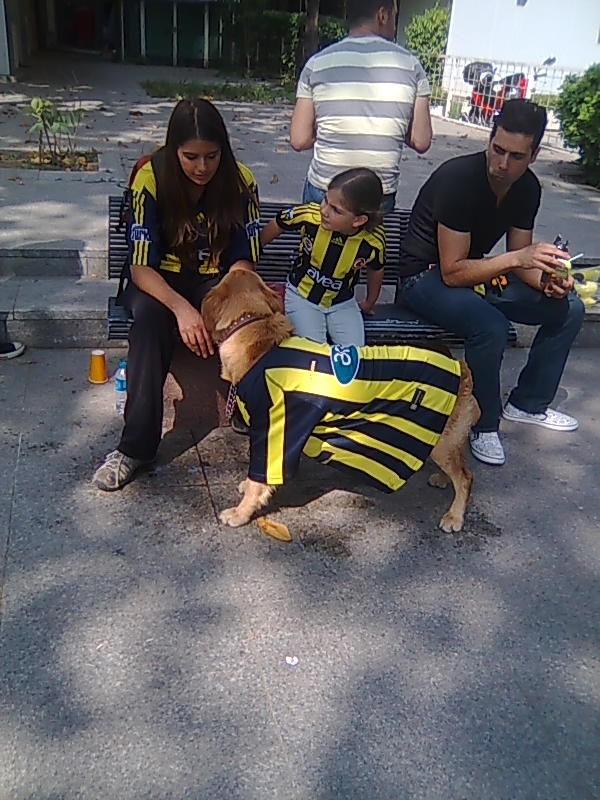 Fenerbahçe SK fans, mother with kid and pet